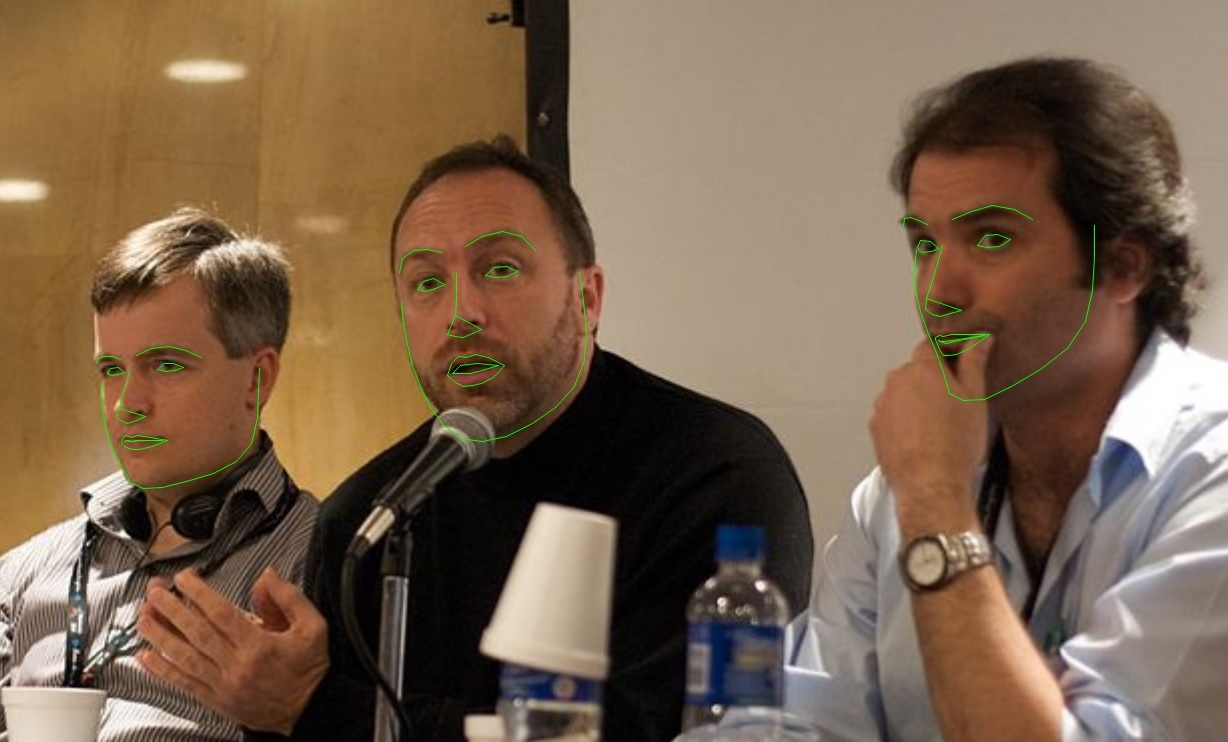 This picture was created with the Dlib example program: face_landmark_detection_ex.cpp from 800px-Jimmy_answering_questions.jpg. It shows how to find frontal human faces in an image and estimates their pose. The pose takes the form of 68 landmarks. These are points on the face such as the corners of the mouth, along the eyebrows, on the eyes, and so forth.